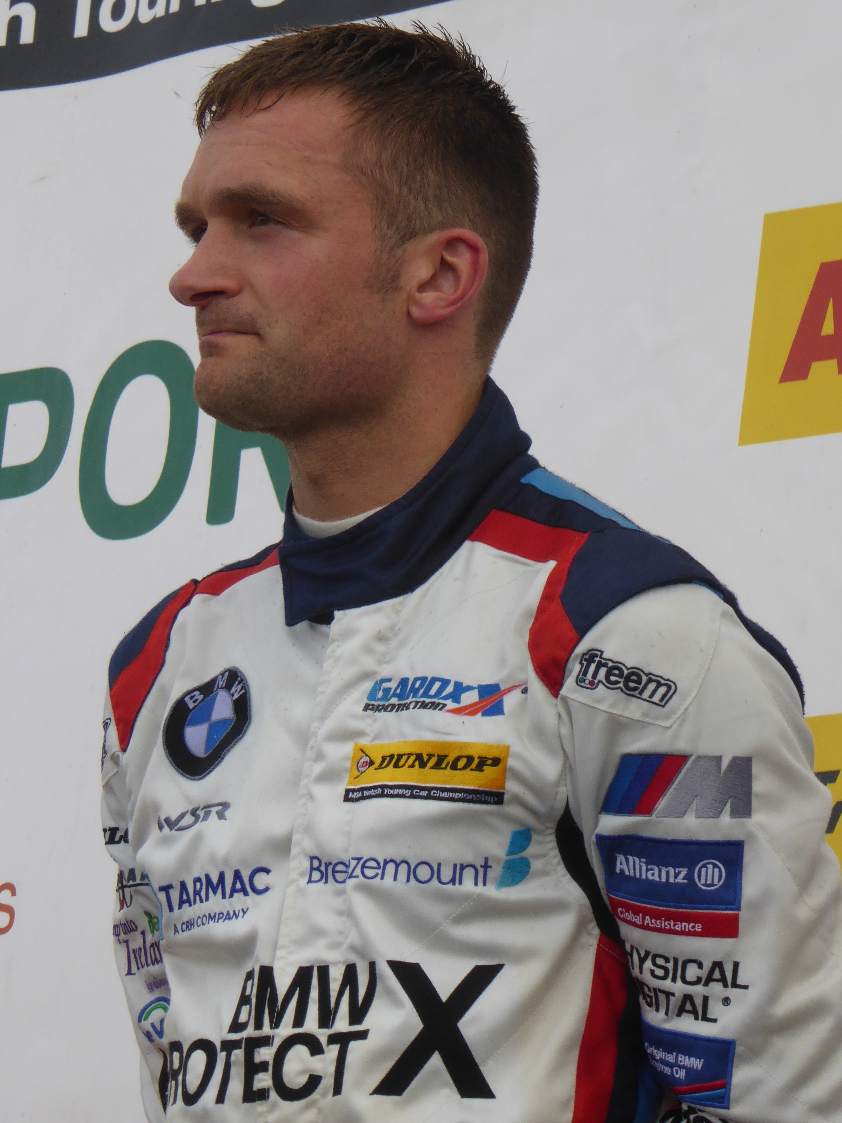 Colin Turkington (Team BMW), who finished third in Race 3, at the Knockhill round of the 2017 British Touring Car Championship.